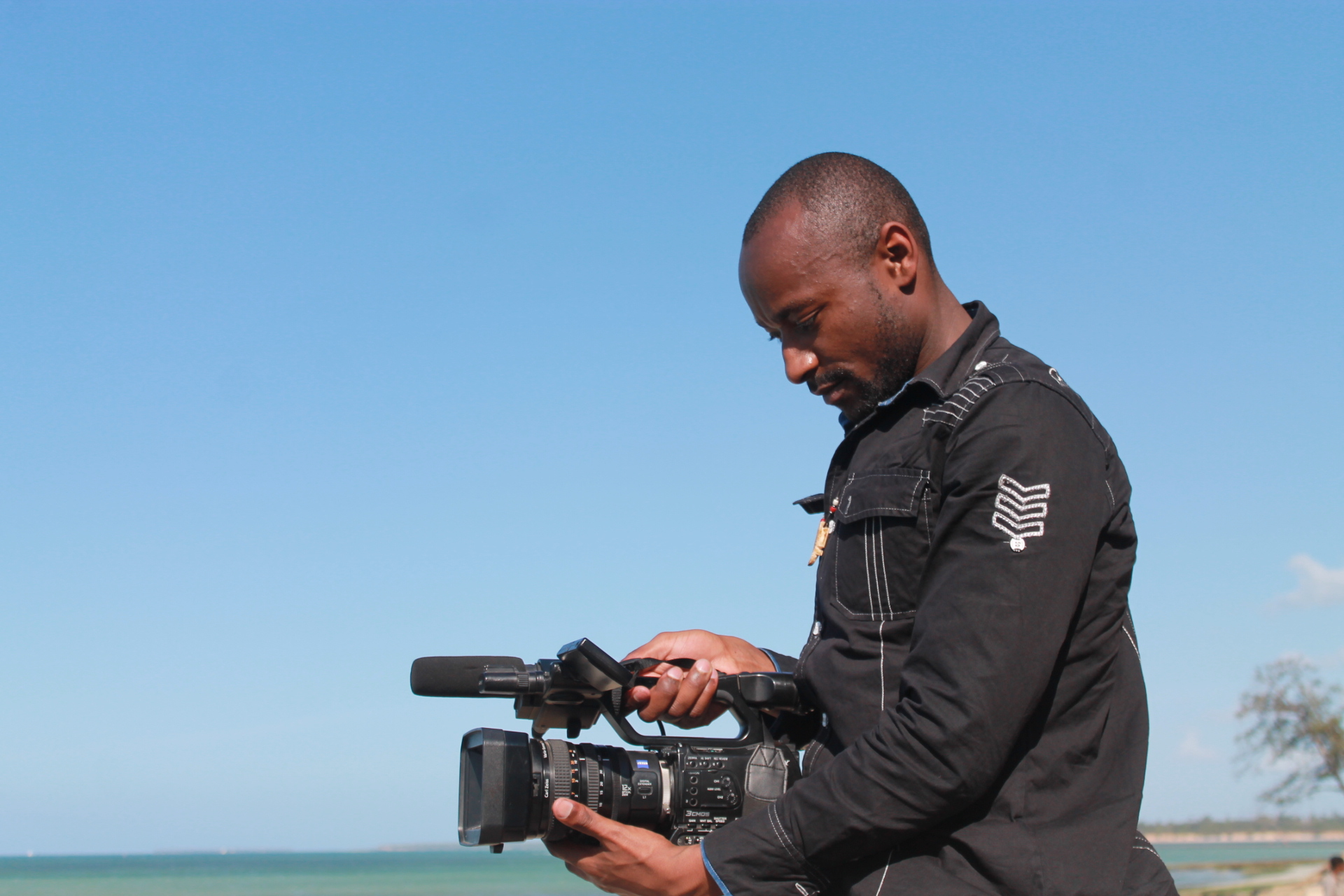 A filmmaker working in Tanzania This is an image of "African people at work" from Tanzania